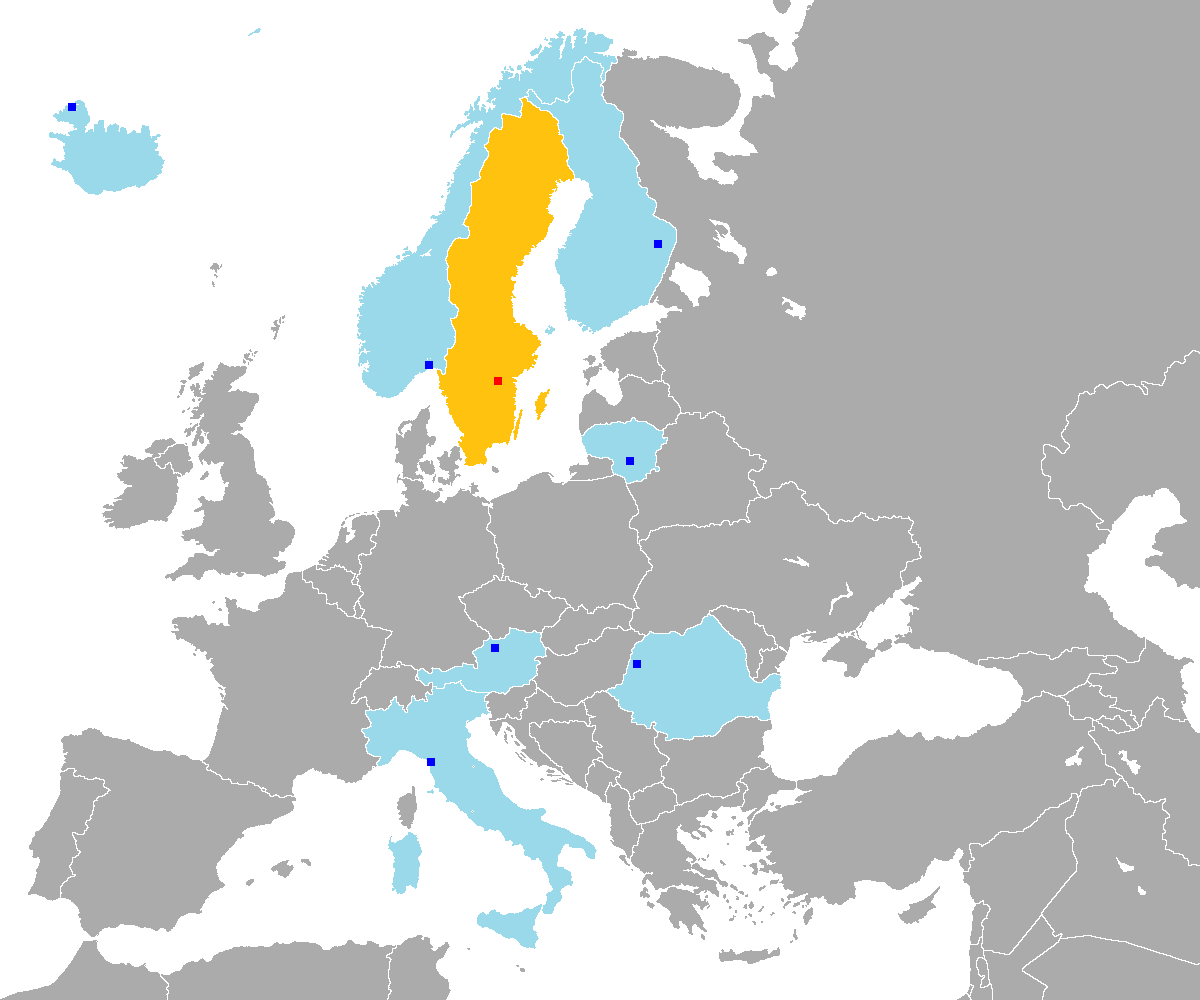 friends of linköping